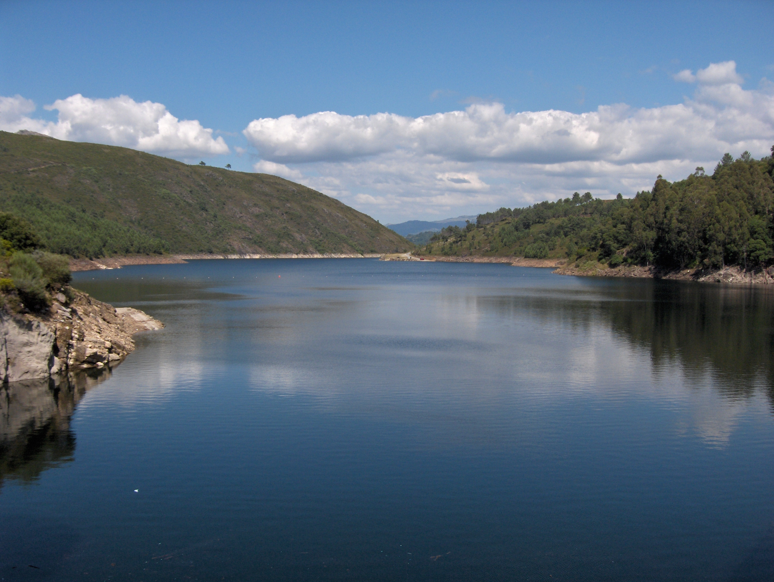 Lindoso dam in Parque Nacional da Peneda-Gerês, Portugal